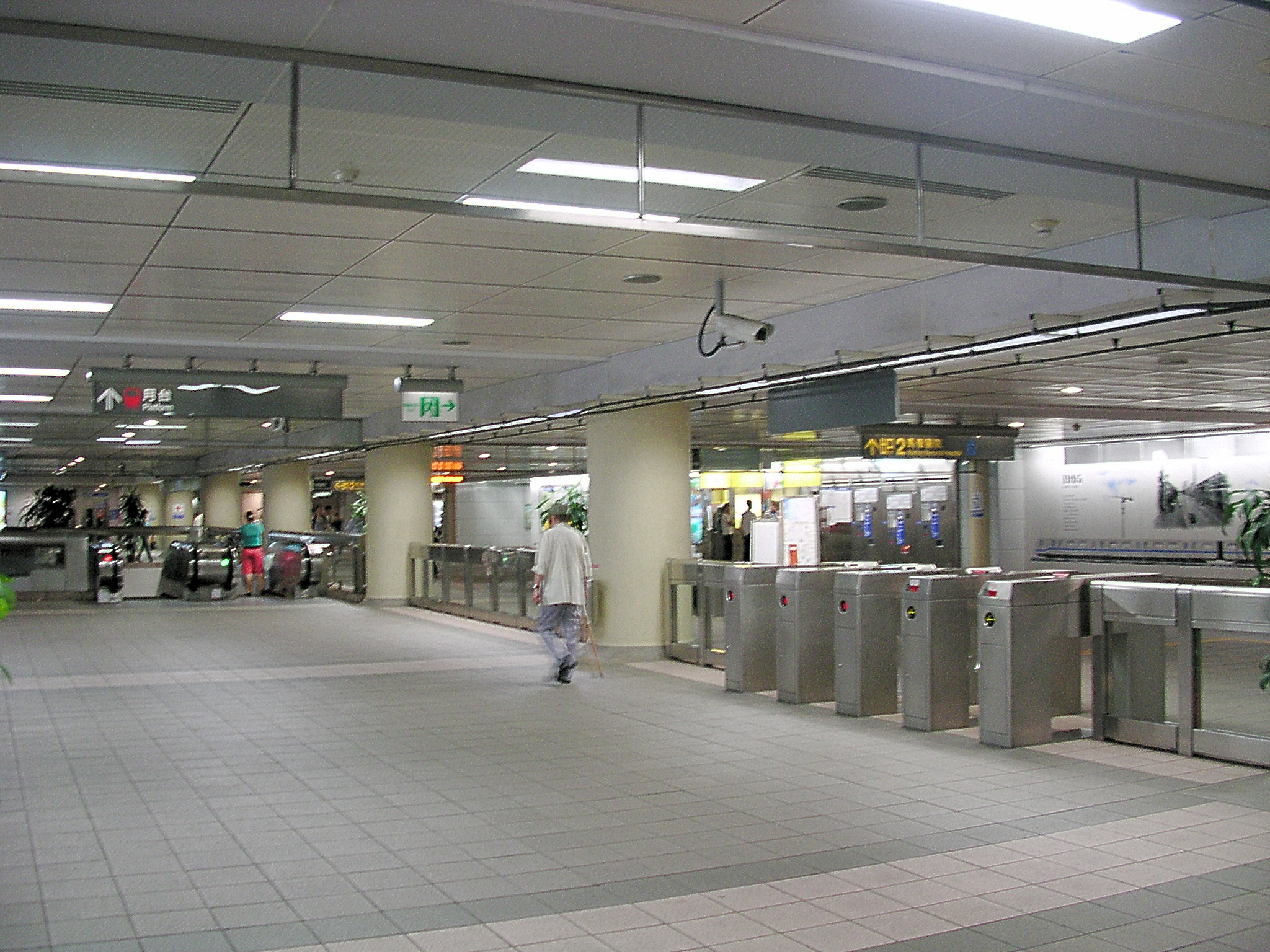 Taipei MRT Shuanglian Station concourse.